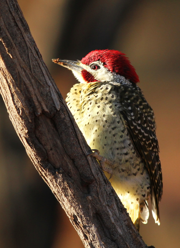 Bennett's Woodpecker, Campethera bennettii at Marakele National Park. Caught in the early morning light.